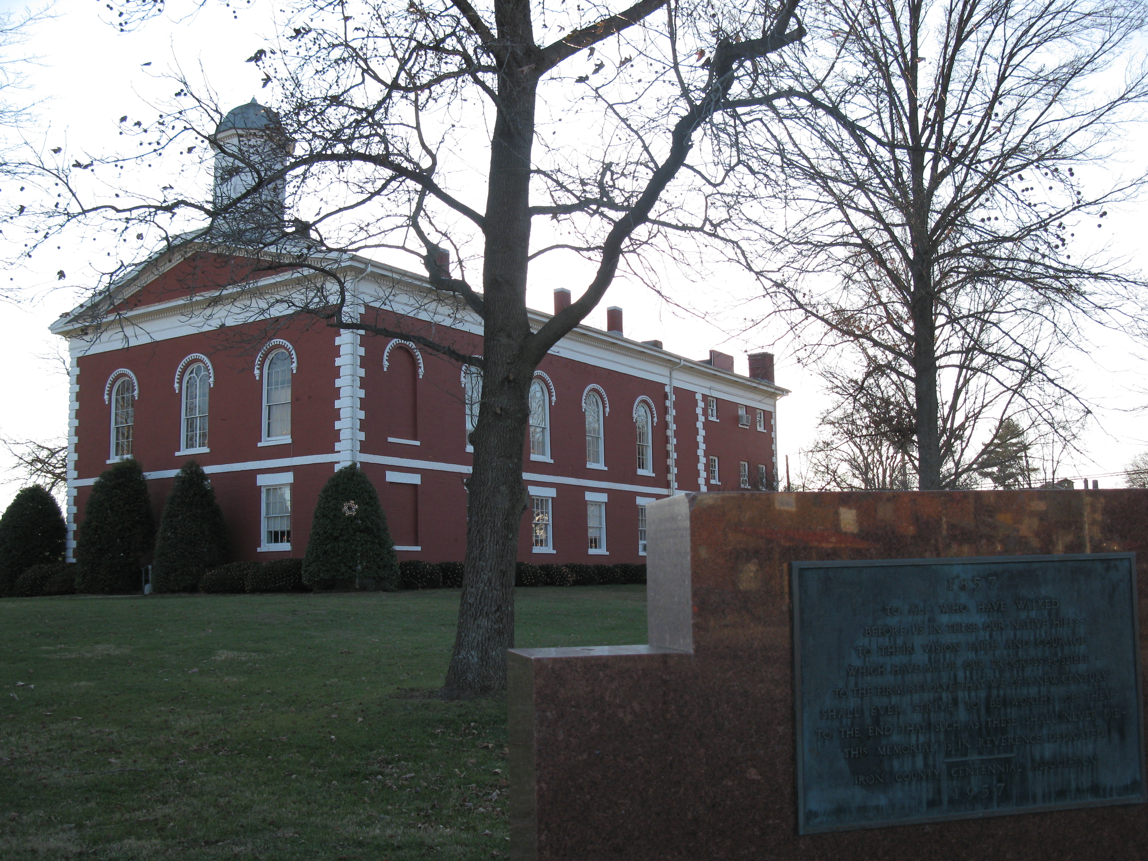 The courthouse in Ironton